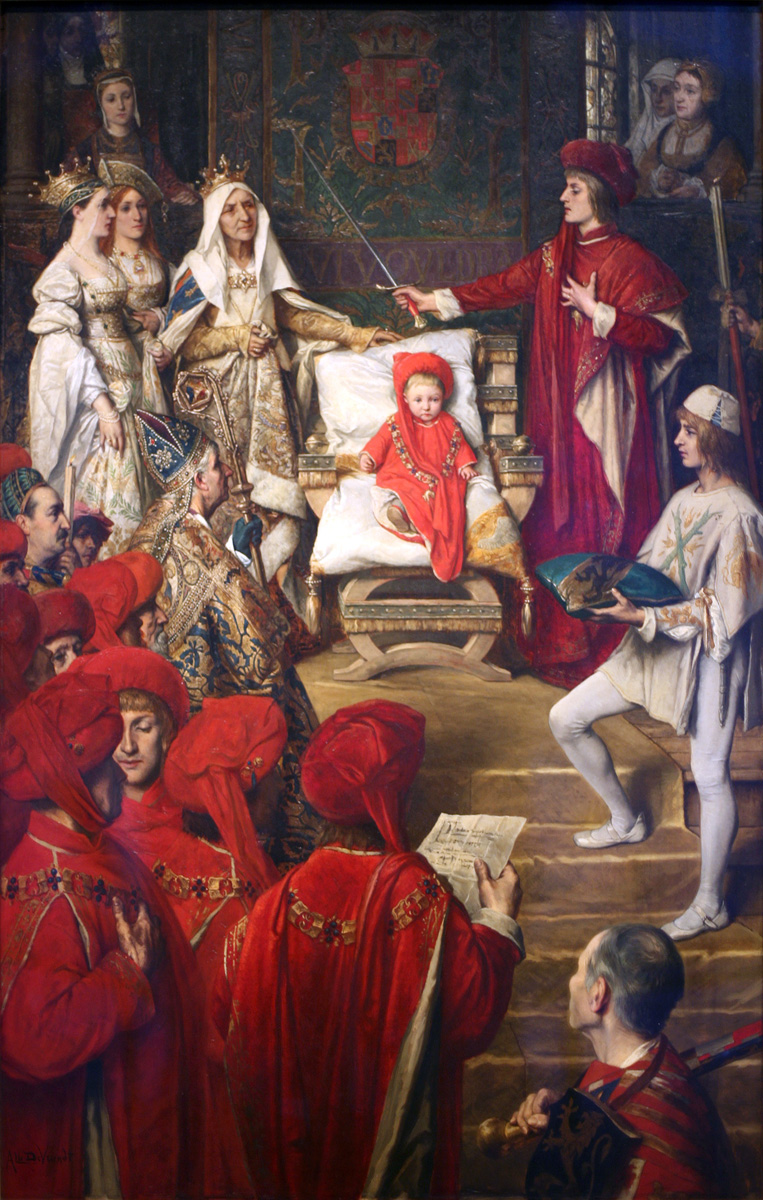 Philip I, the Handsome, Conferring the Order of the Golden Fleece on his Son Charles of Luxembourglabel QS:Len,"Philip I, the Handsome, Conferring the Order of the Golden Fleece on his Son Charles of Luxembourg"label QS:Lfr,"Philippe Ier le Beau, conférant à son fils Charles de Luxembourg le titre de Chevalier de l'Ordre de la Toison d'Or"